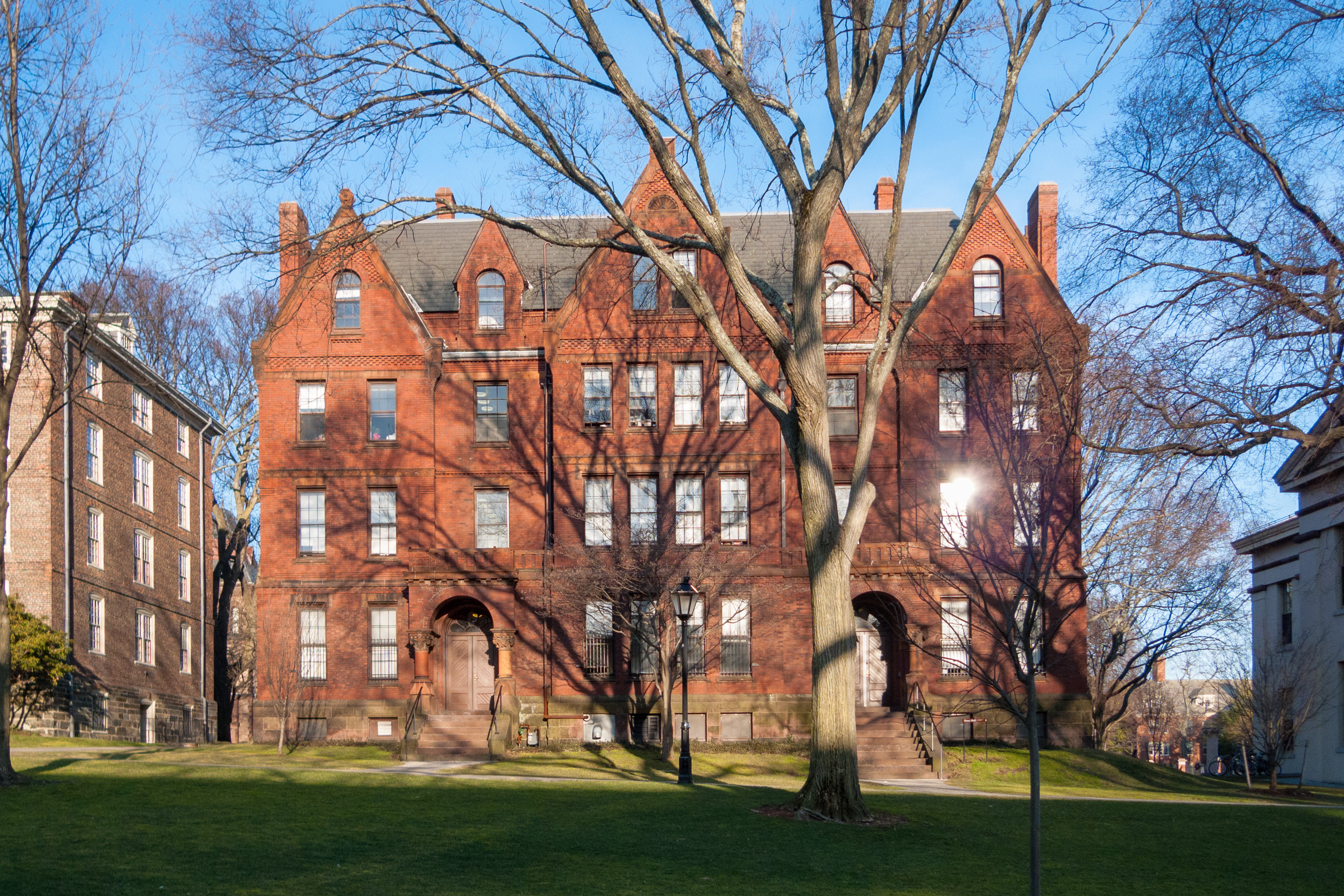 Slater Hall, Brown University